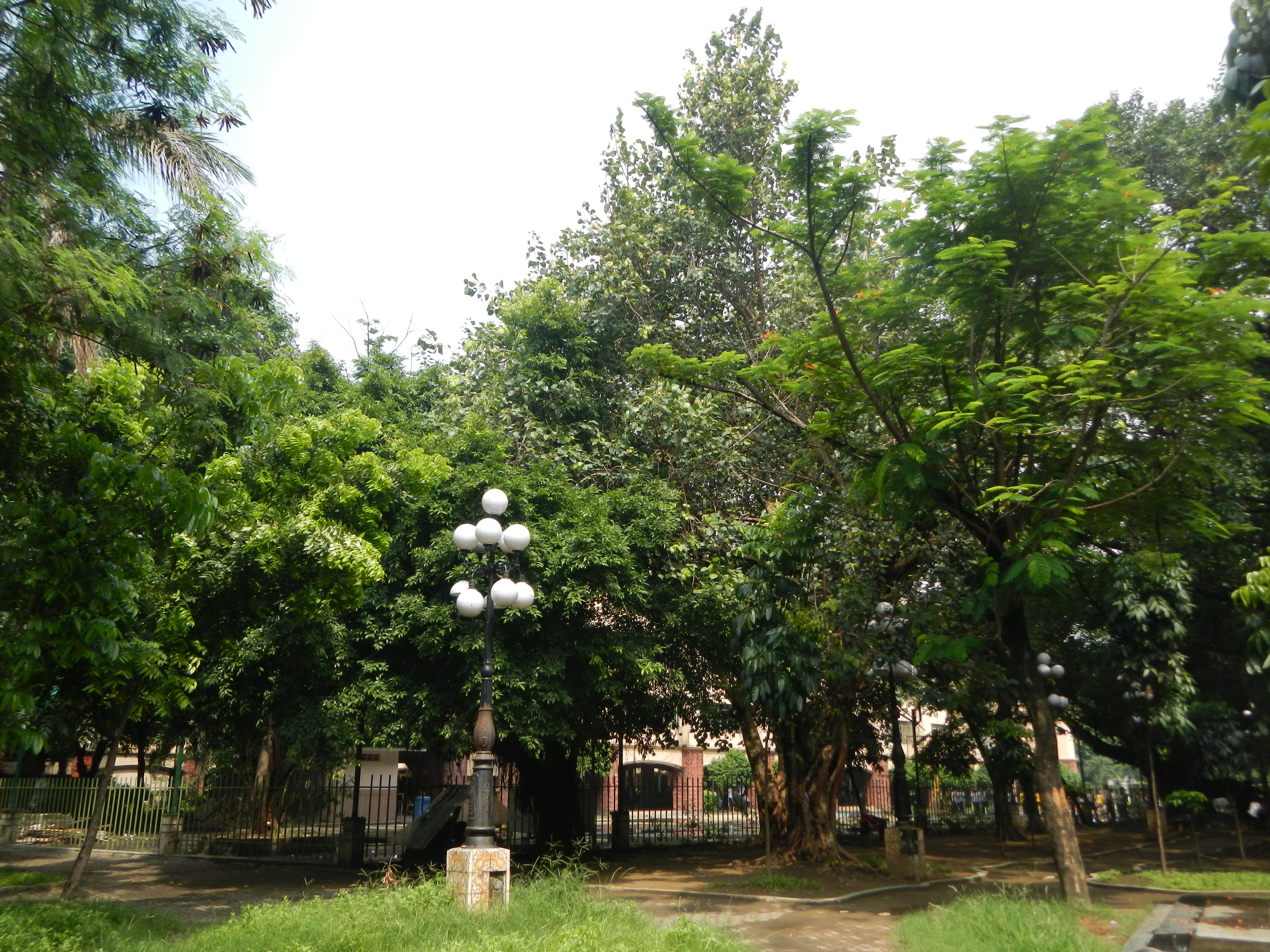 January 29, 2010 Monument of [1] Alexander Pushkin in Manila (Alexander Sergeyevich Pushkin